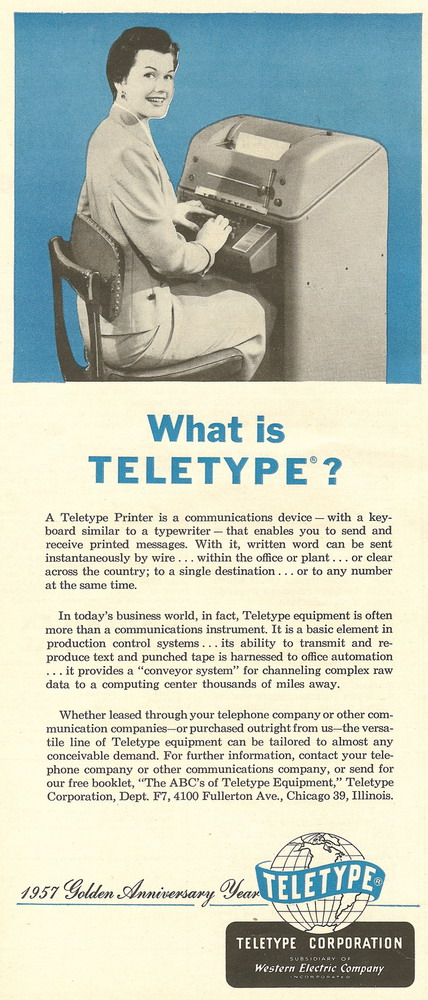 This is a Teletype Corporation advertisement from 1957. A search of the USPTO records indicates that all trademark registrations for "Teletype" and "Teletype Corporation" are expired.